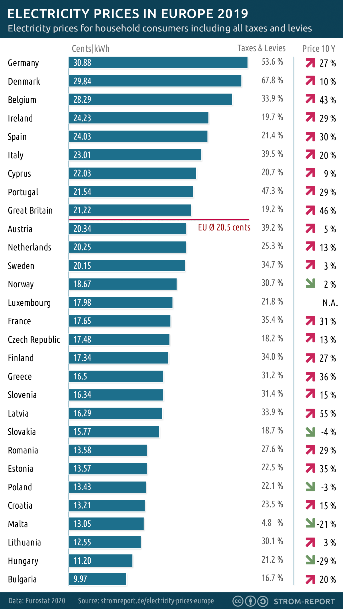 Electricity prices in Europe by country. The price is per kilowatt hour, for medium size household consumers with annual consumption between 2500 and 5000 kWh and includes all taxes and levies.